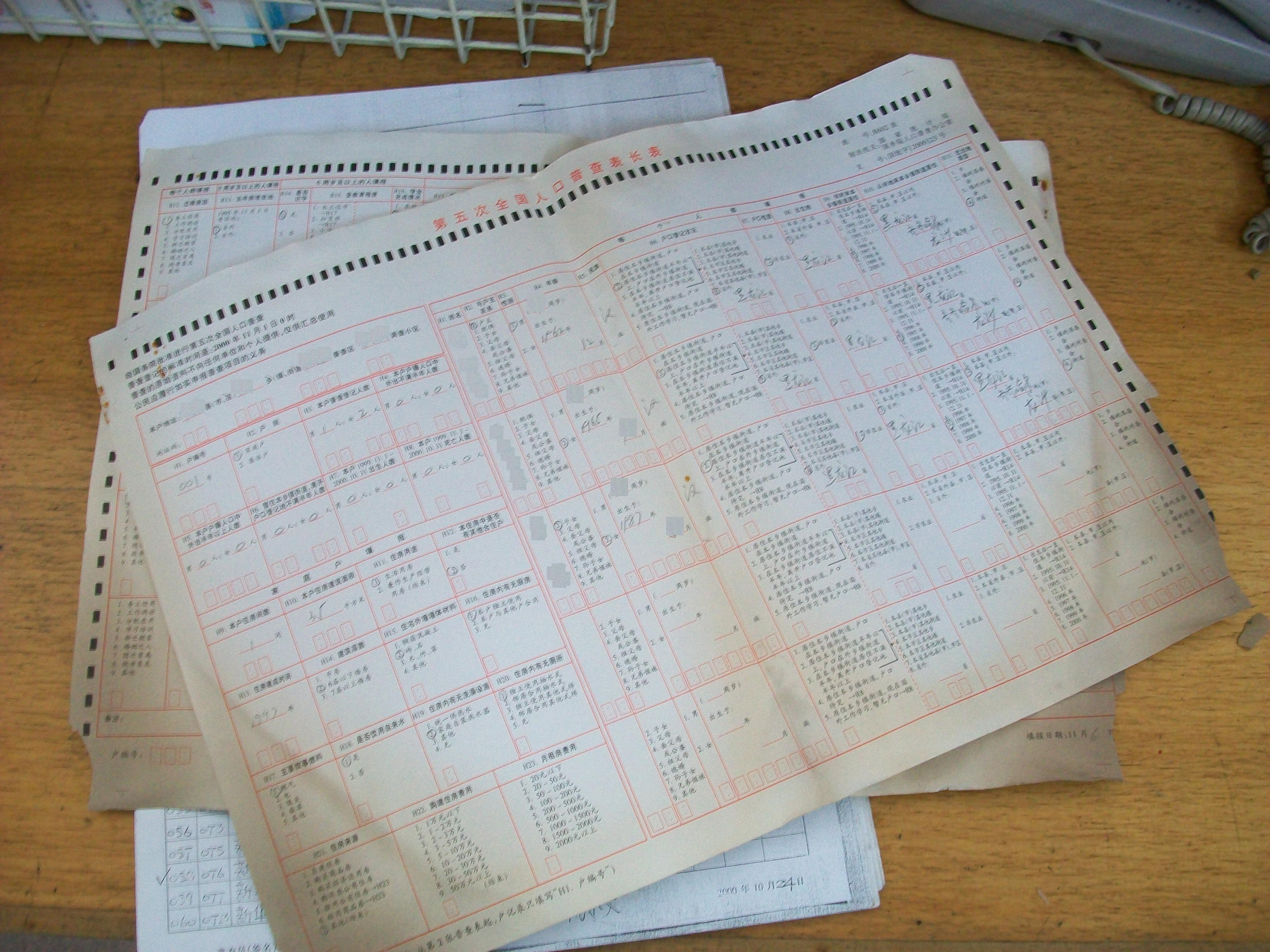 Forms of the 5th China population census